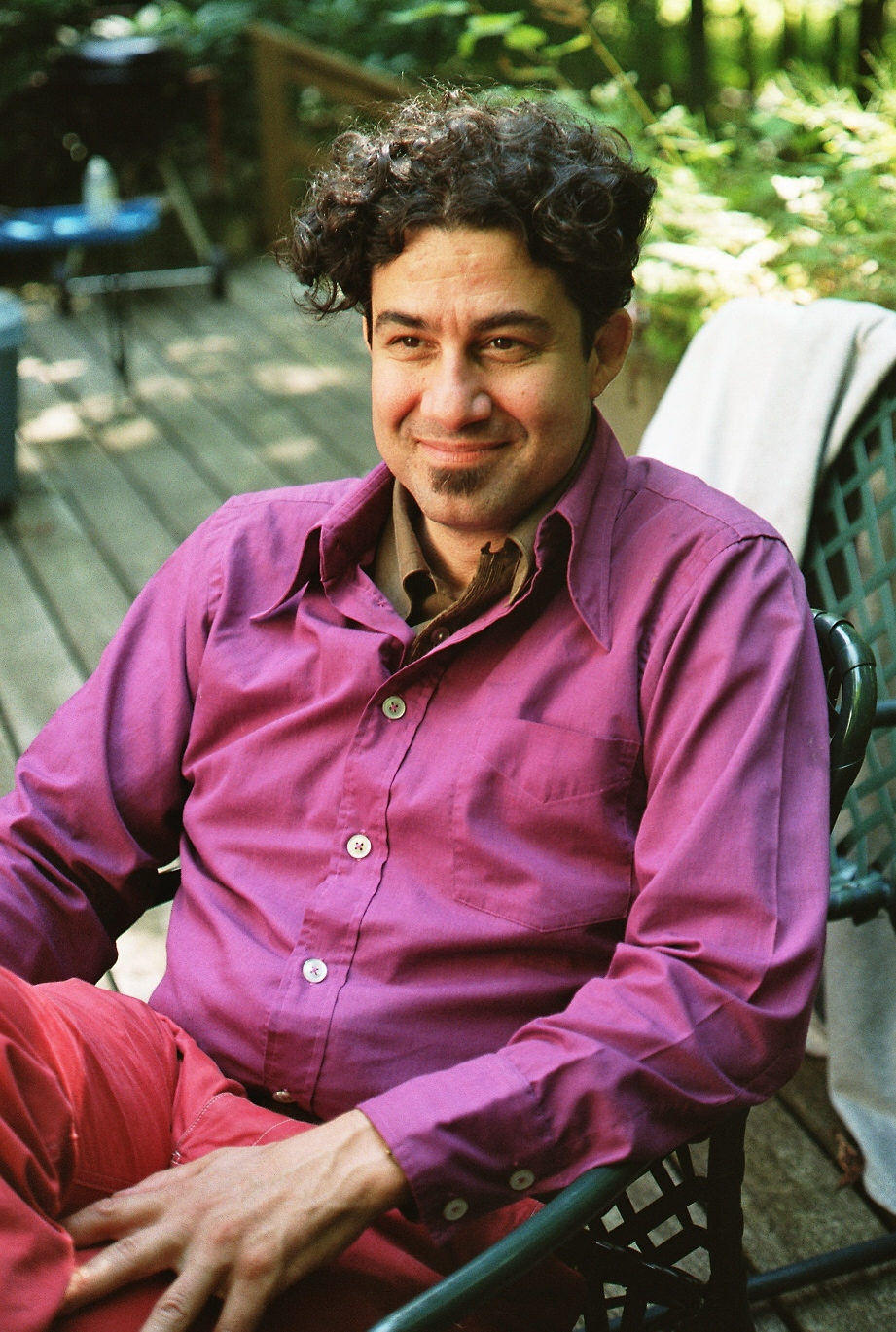 Canadian stem cell biologist Derrick Rossi, 2008